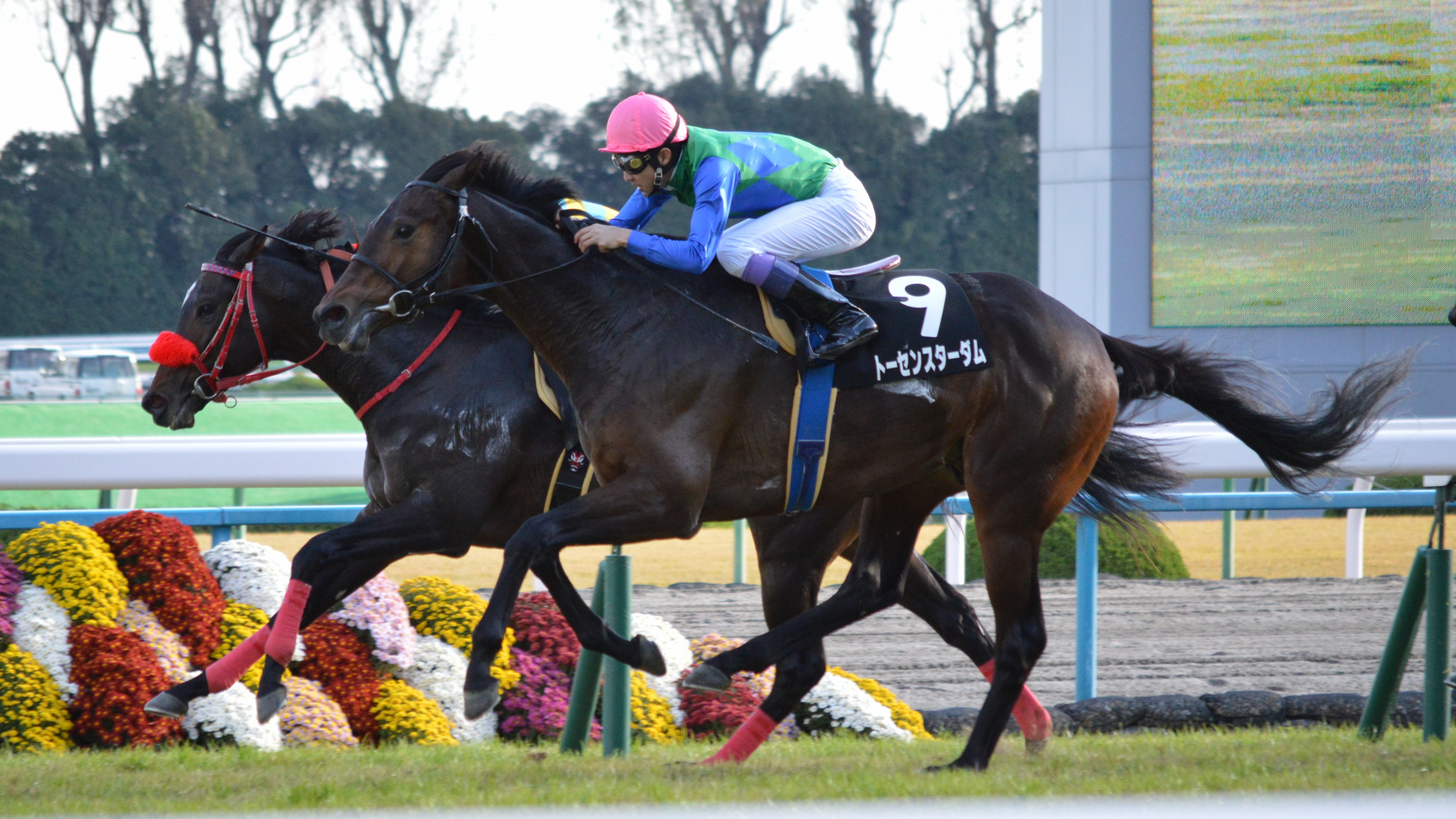 Japanese race horse Tosen Stardom at Kyoto racecourse.